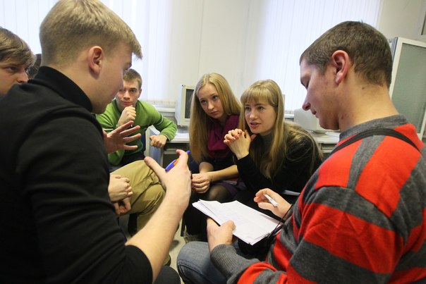 Во время семинара-тренинга программы "Умные сети"